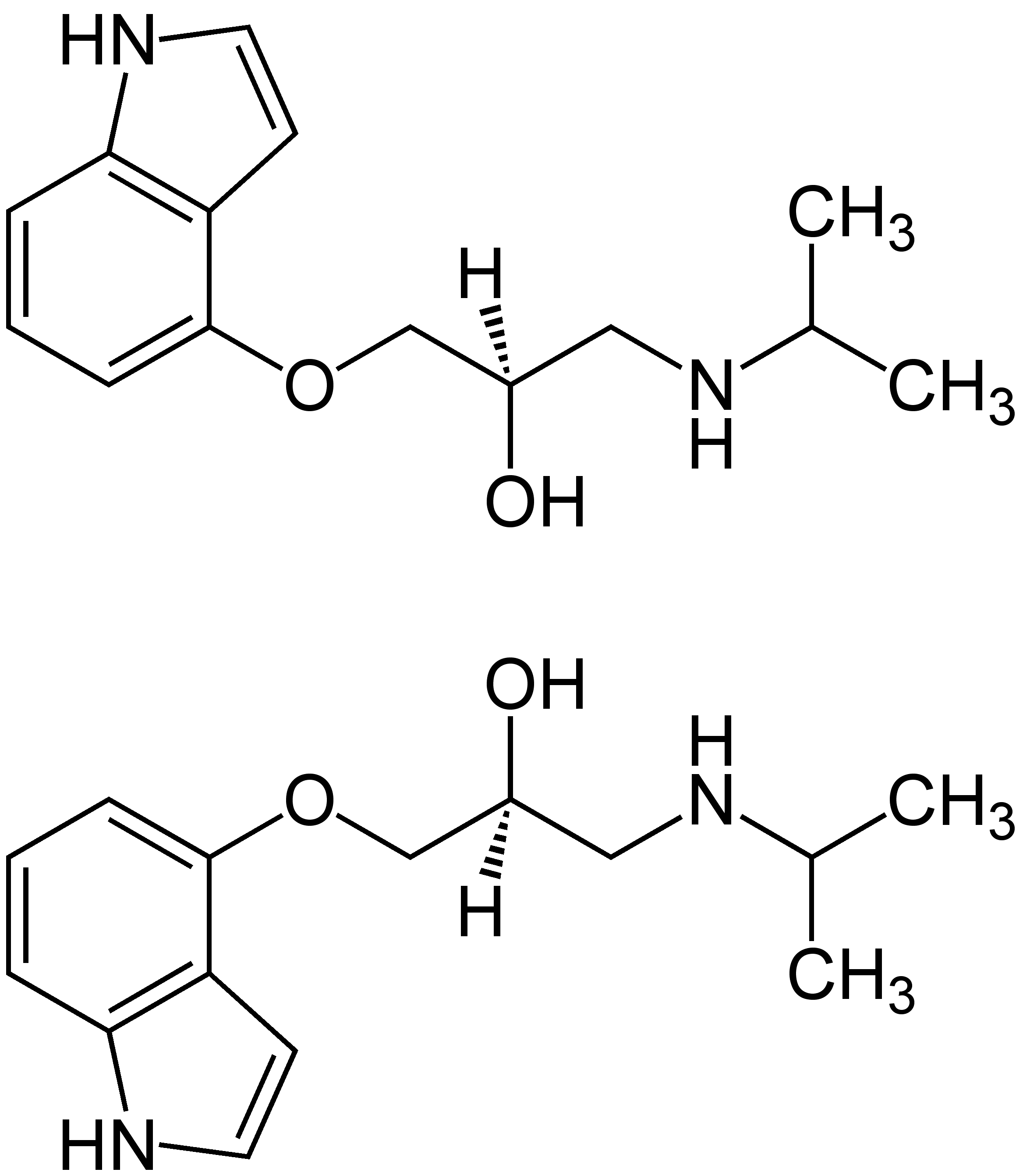 (±)-Pindolol_Enantiomers_Structural_Formula